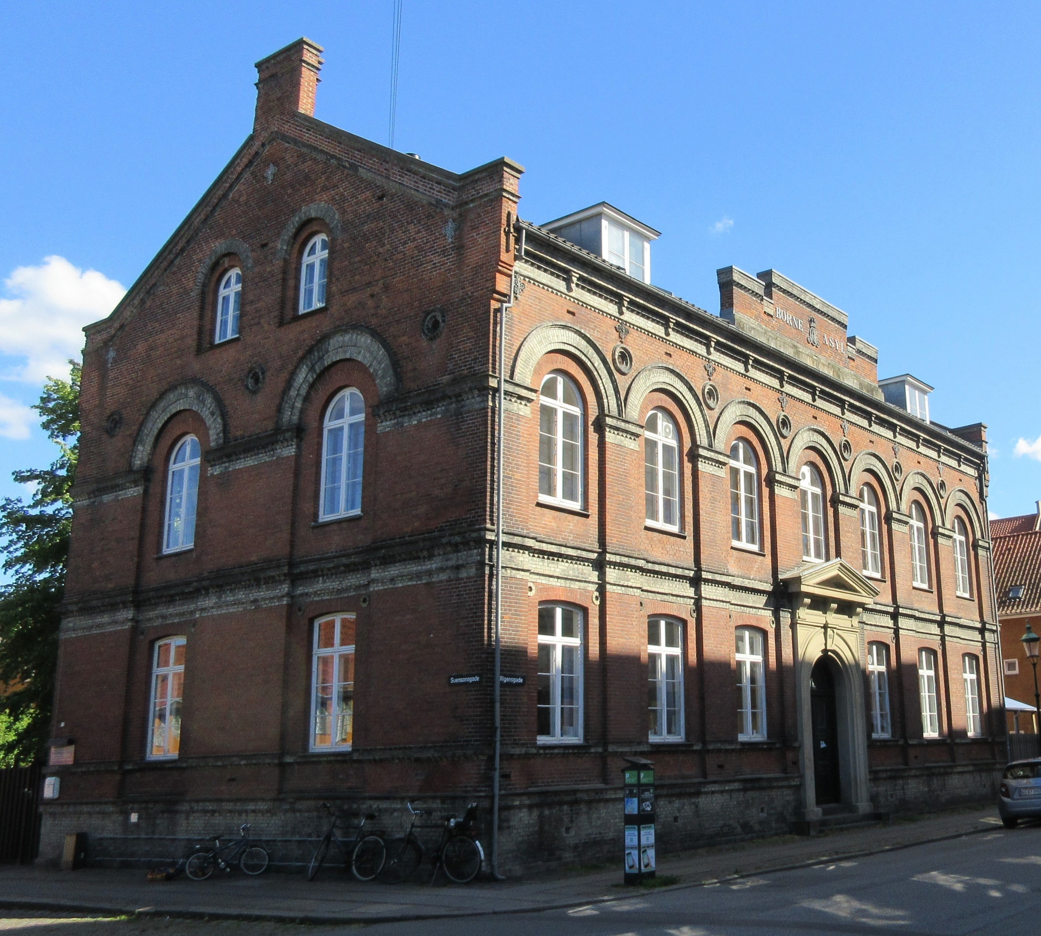 Caroline Amalies Asyl in Rigensgade in Copenhagen, Denmark